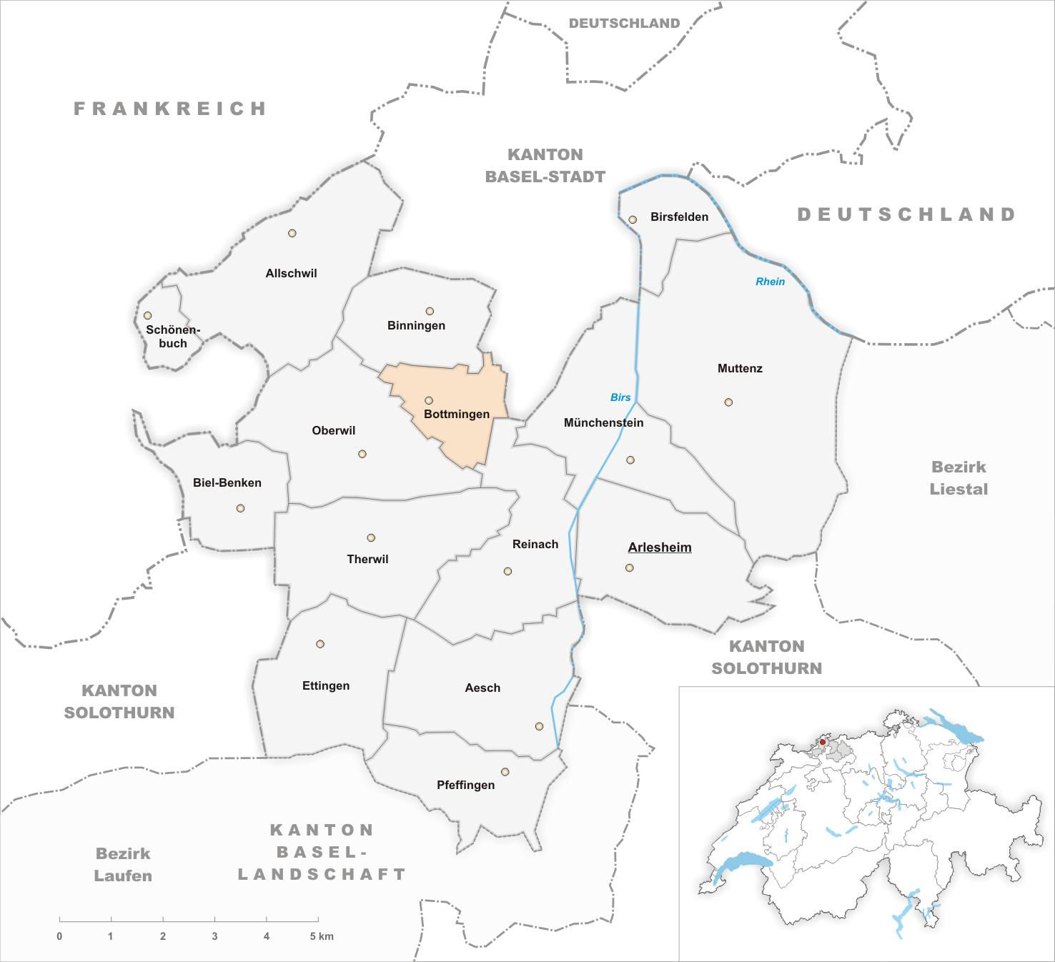 Municipality Bottmingen